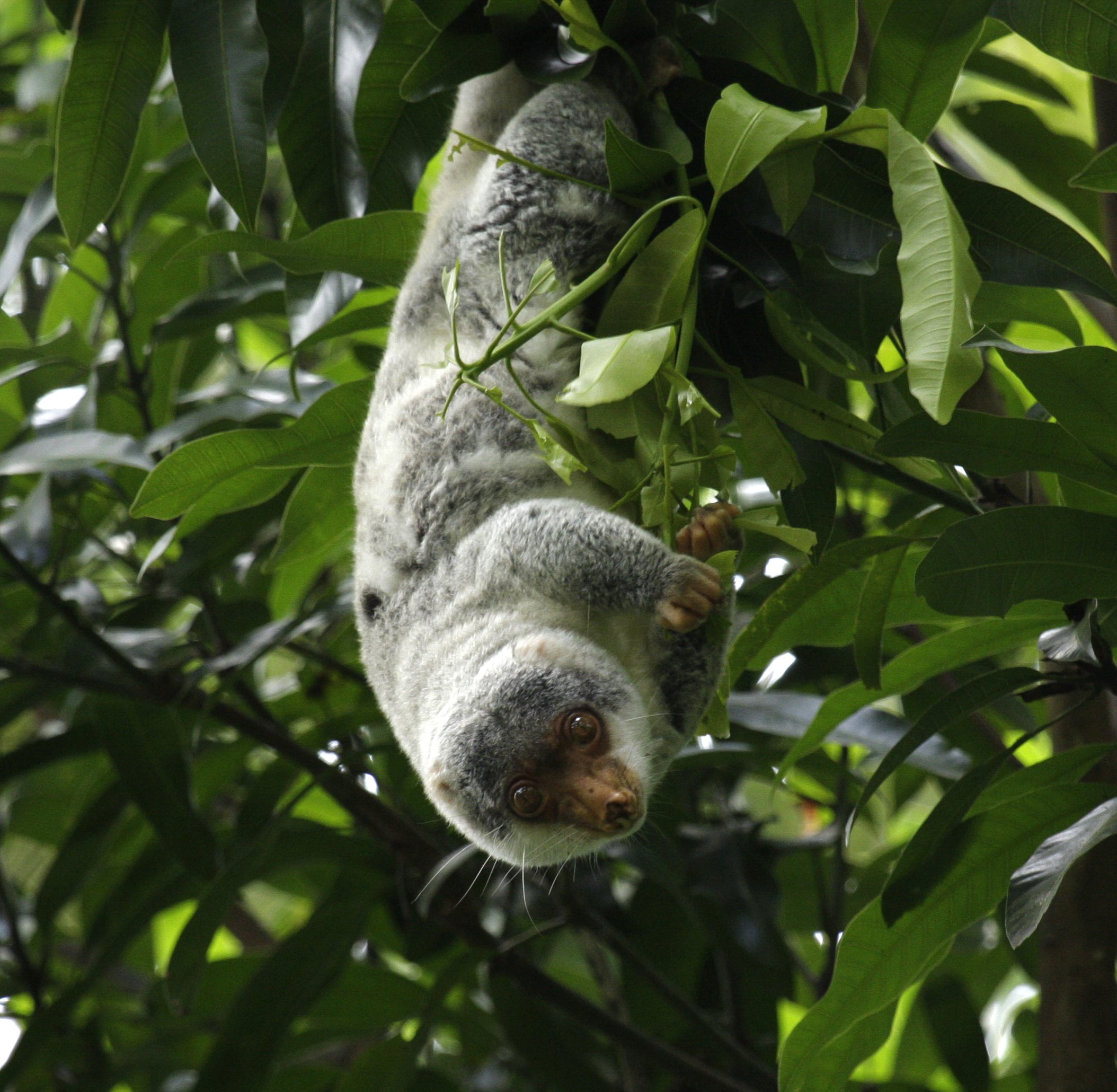 Common Spotted Cuscus (Spilocuscus maculatus) Iron Range NP, N.Queensland, Australia